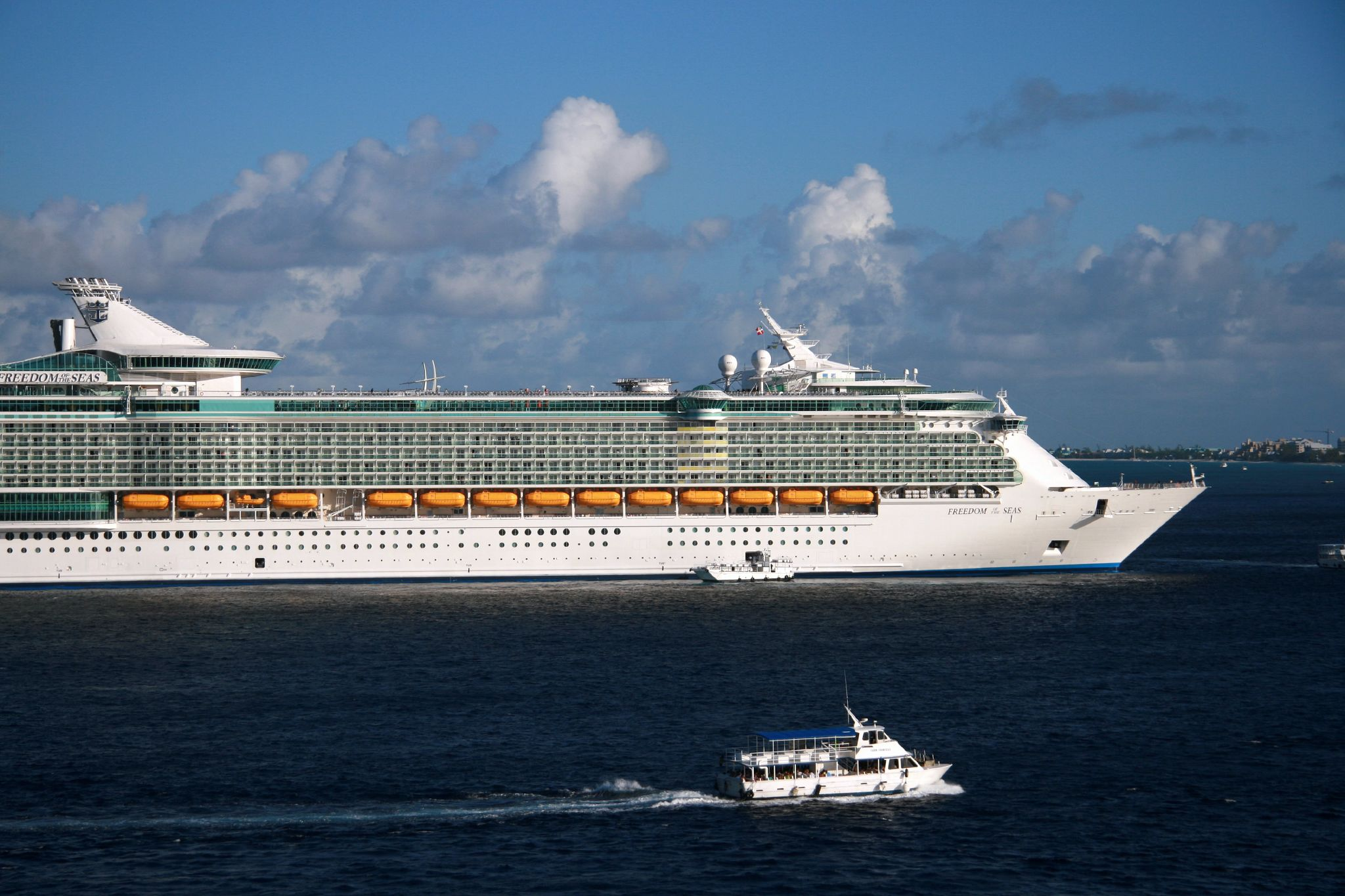 A tender passes Freedom of the Seas.